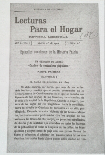 En Lecturas para el hogar (1905-1906), que definió como "Revista literaria, histórica e instructiva" se encuentran varios de sus artículos de historia y biografías de ilustres hispanoamericanos, así como textos de consejos a las mujeres sobre su papel en el hogar y la sociedad.